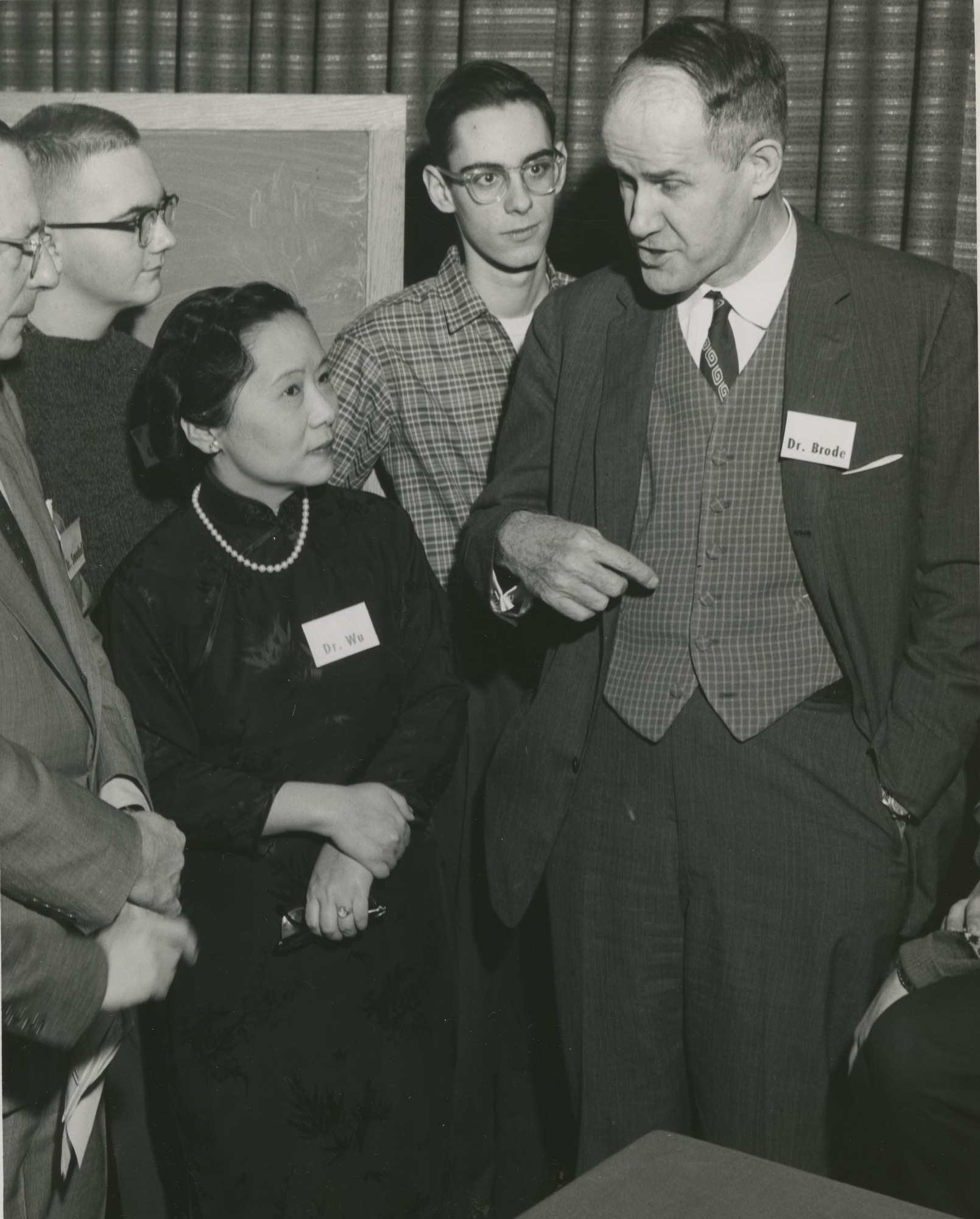 Subject: Wu, C. S (Chien-shiung) 1912-1997 Columbia University Type: Black-and-white photographs Date: 1958 3/15/1958 Topic: Physics Women scientists Local number: SIA Acc. 90-105 [SIA2010-1512] Summary: Chien-shiung Wu (1912-1997), professor of physics at Columbia University, with "Dr. Brode" (probably Wallace Brode) Cite as: Acc. 90-105 - Science Service, Records, 1920s-1970s, Smithsonian Institution Archivess Persistent URL:Link to data base record Repository:Smithsonian Institution Archives View more collections from the Smithsonian Institution.